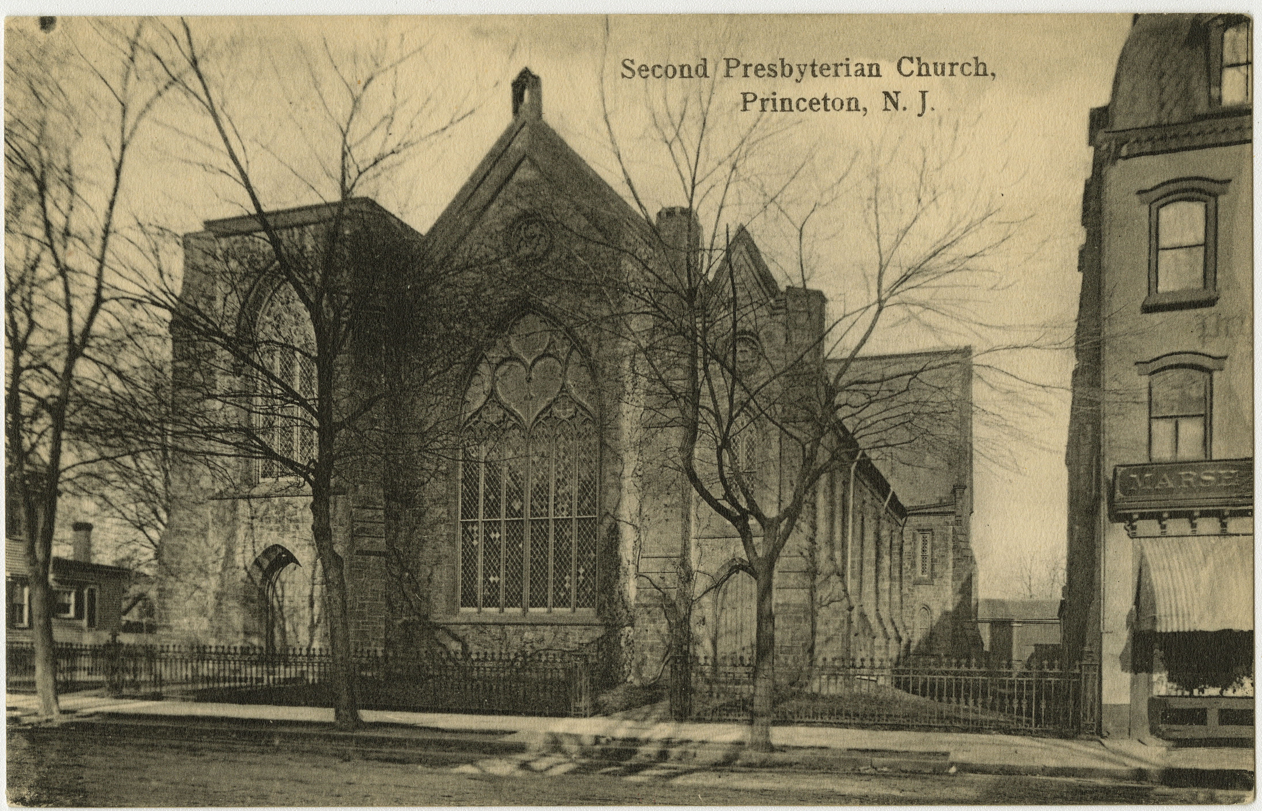 Second Presbyterian Church in Princeton, New Jersey from a pre-1923 postcard From RG 428, Postcard Collection, Presbyterian Historical Society, Philadelphia, Pennsylvania.